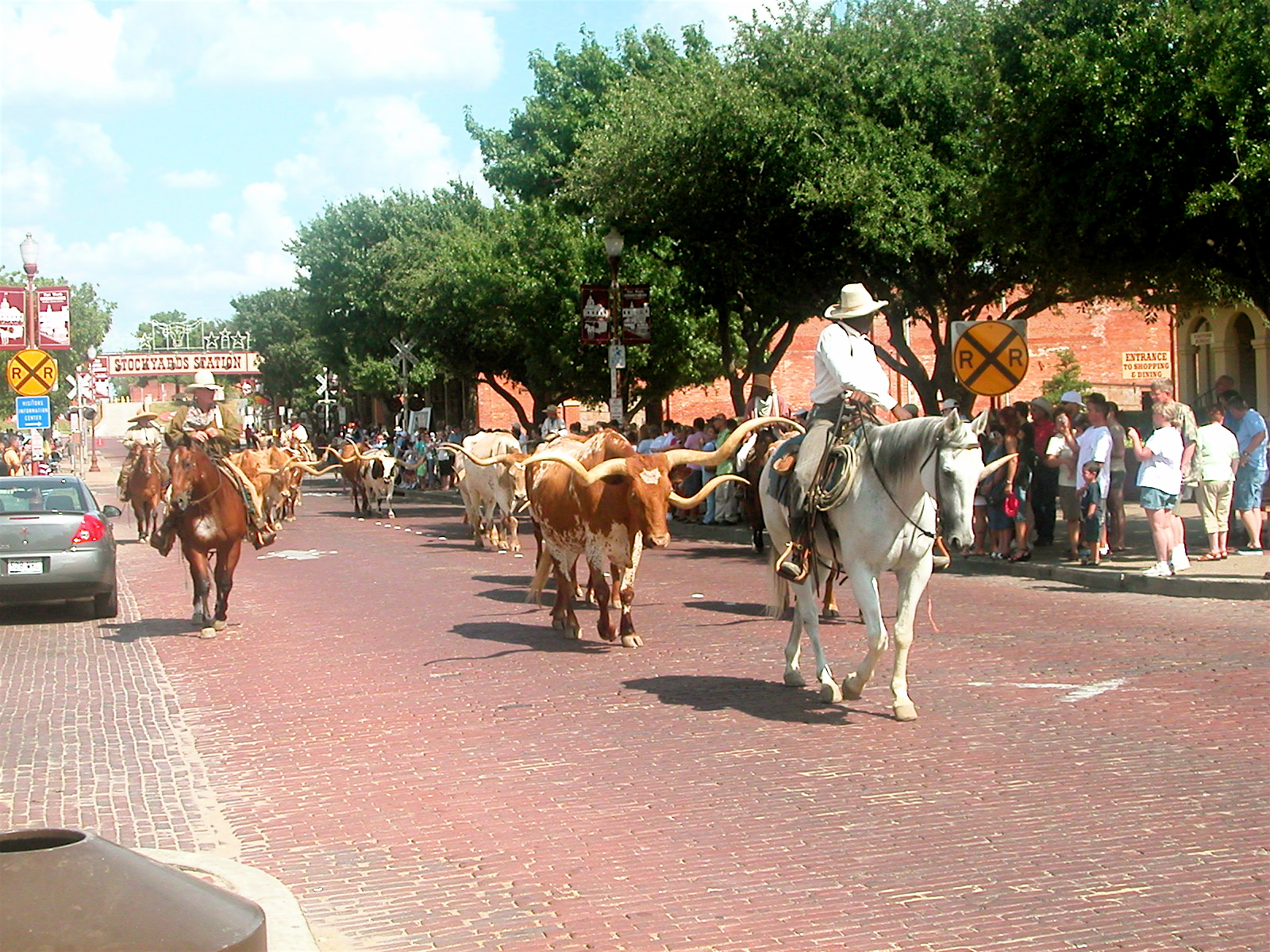 Twice-daily cattle drive through the Stockyards, a tourist cowboy town near Forth Worth, TX